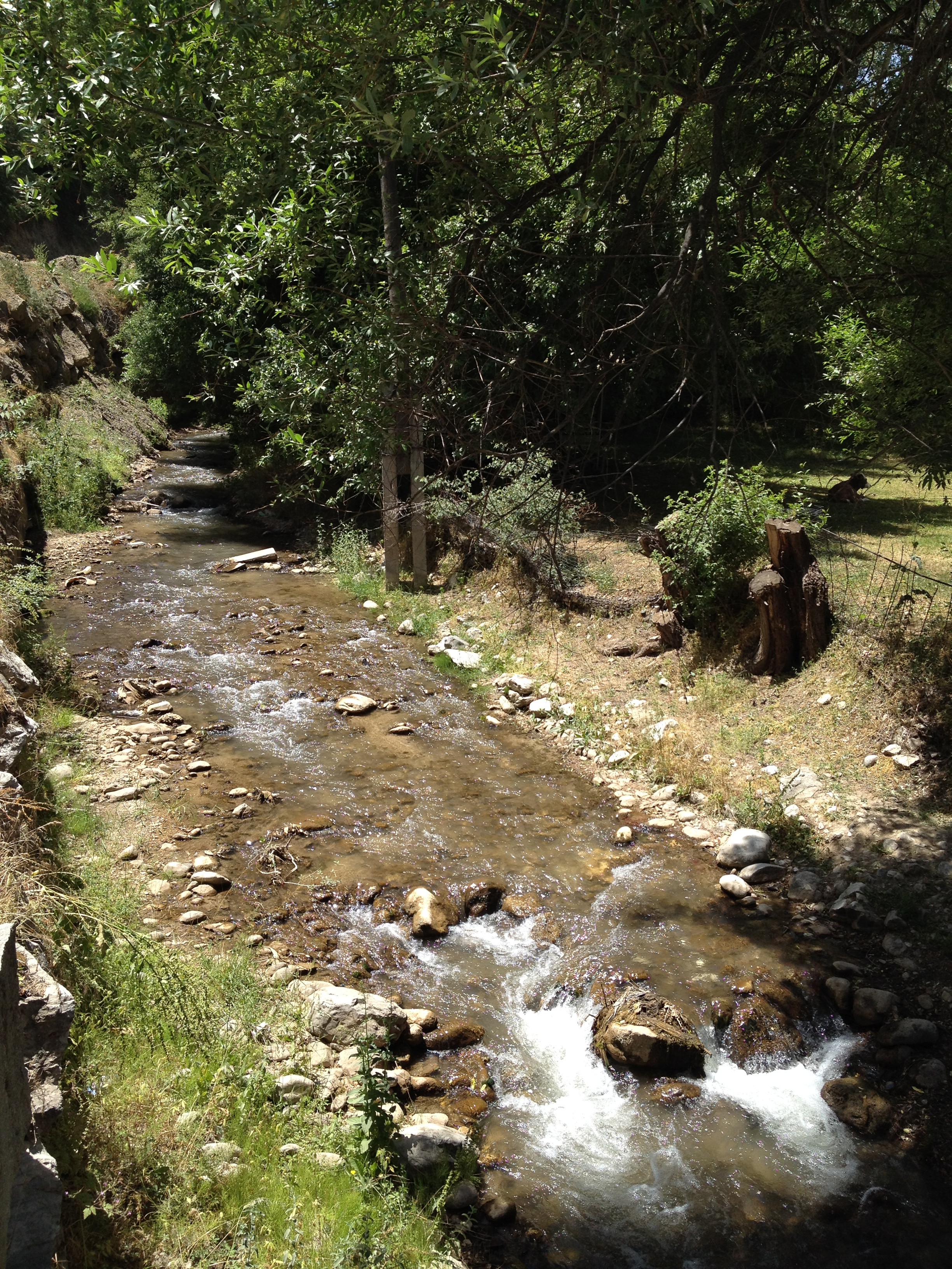 Aman-Kutan Say in the middle reaches (Aman-Kutan village)